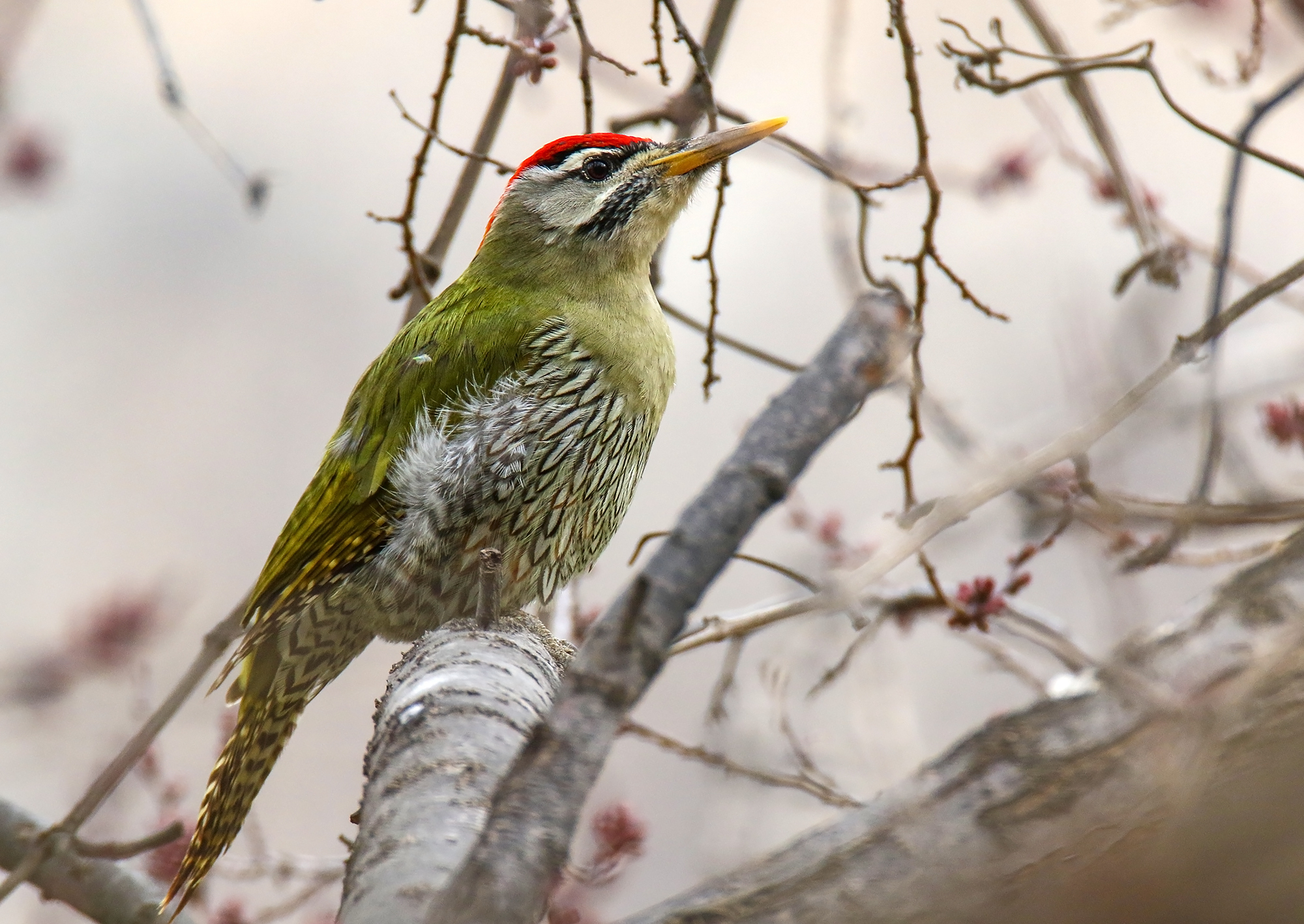 Scaly-bellied Woodpecker (Picus squamatus) captured at Aliabad, Hunza, Gilgit-Baltistan, Pakistan with Canon EOS 7D Mark II